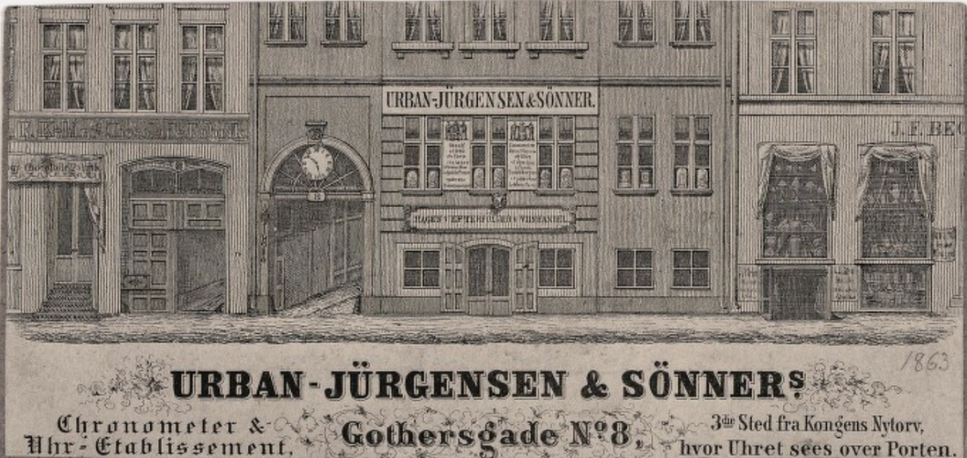 Urban-Jürgensen & Sönners Chronometer & Uhr-Etablissement in Gothersgade in Copenhagen, Denmark